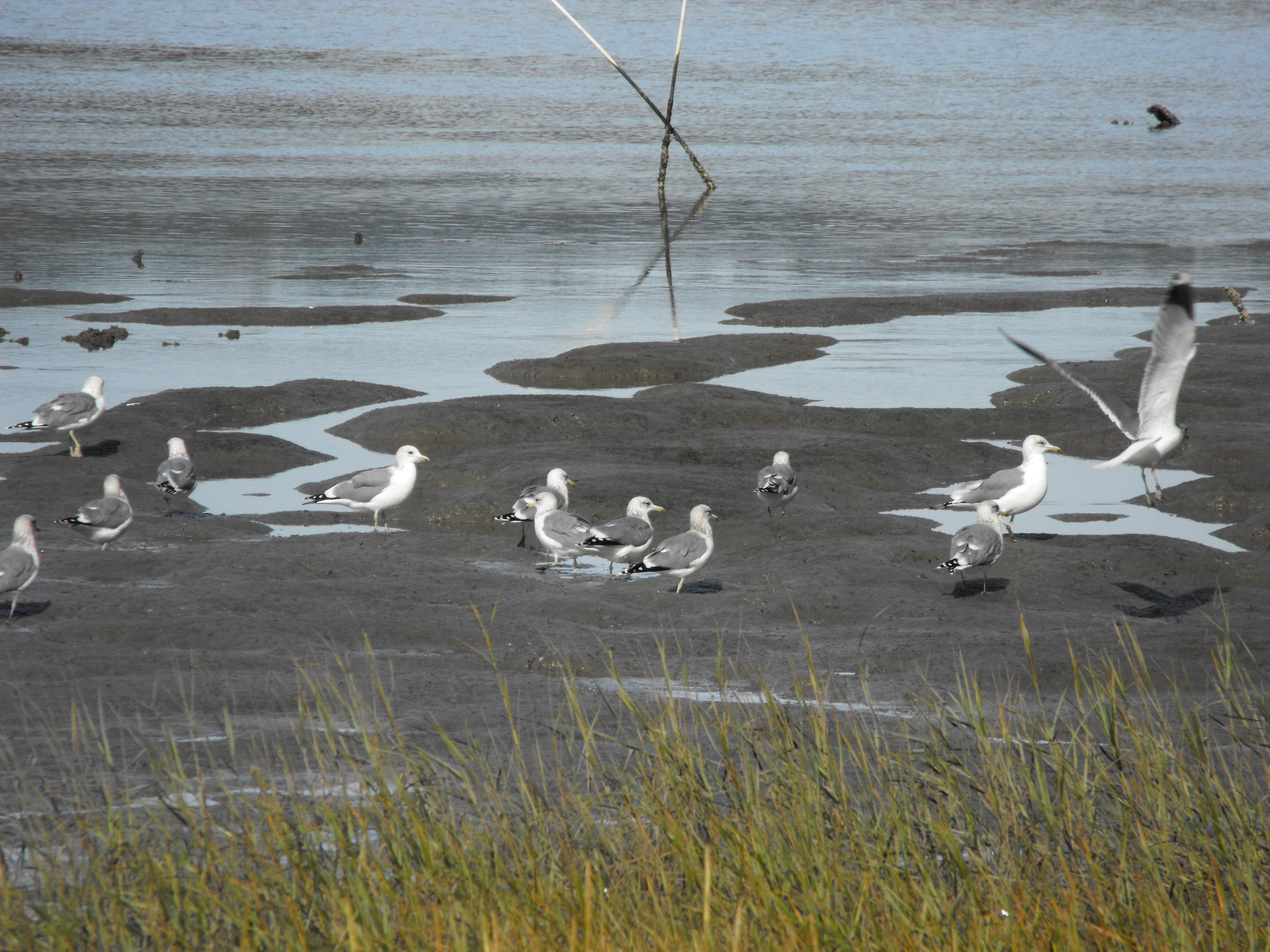 California Gulls in the mud near the water in Mill Valley, California. Photograph by Joe Monica